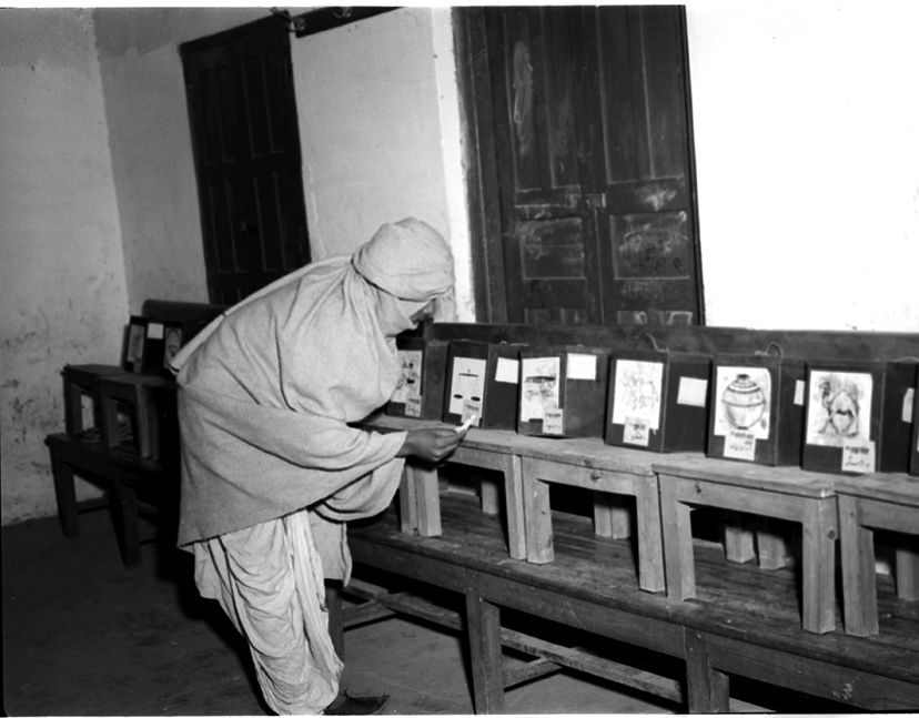 A voter in front of several ballot boxes marked with the candidates’ symbols in the Indian general election 1951/52.